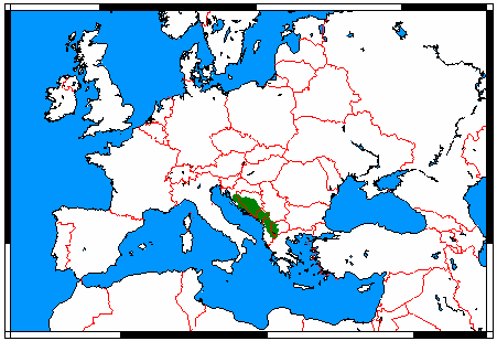 Balkan Snow Vole (Dinaromys bogdanovi) range map, made by me with help of Map depending on the range map at IUCN red list.